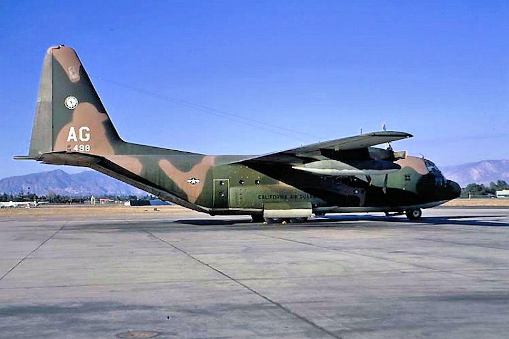 195th Tactical Airlift Squadron - Lockheed C-130A-7-LM Hercules 56-498